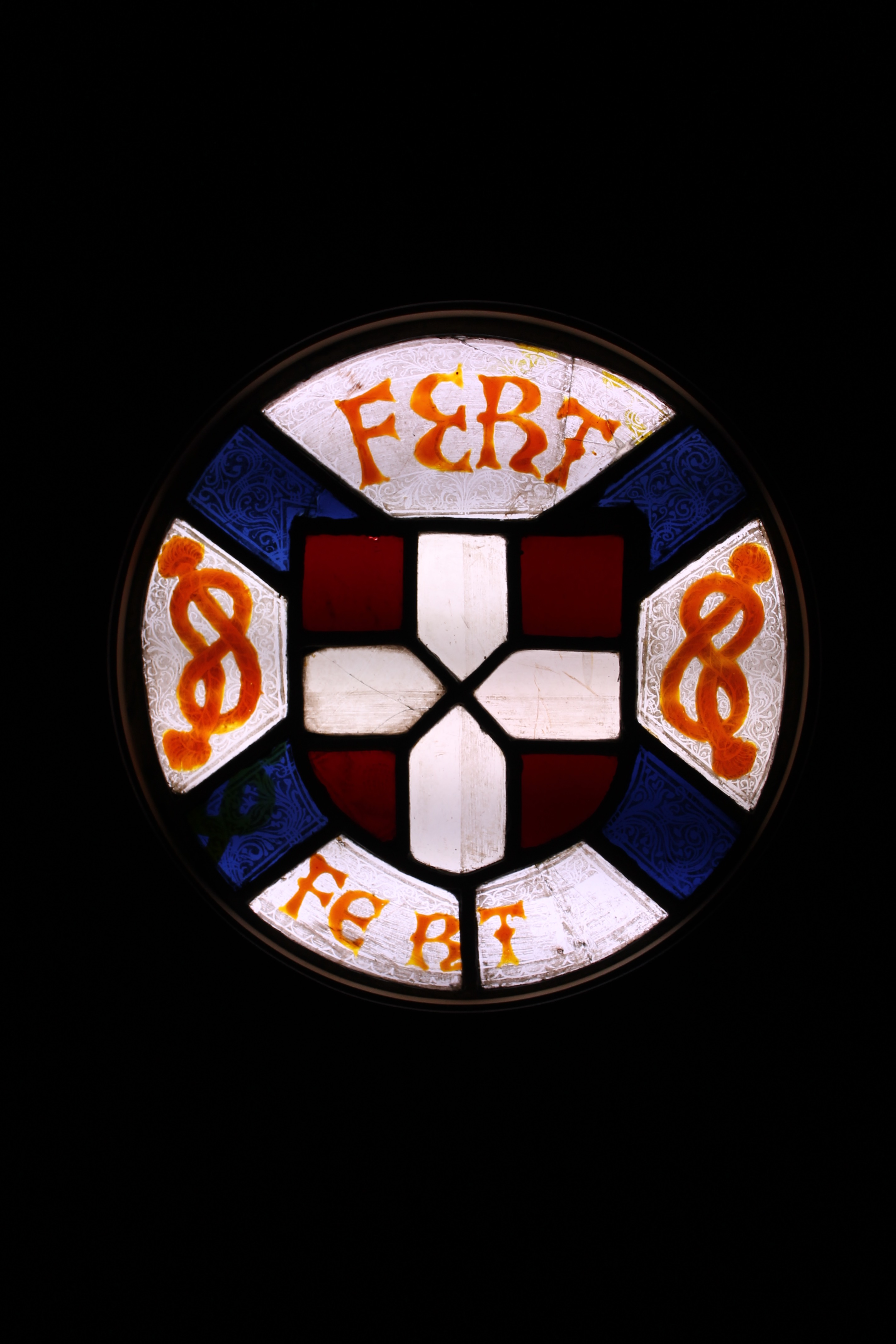 Stained glass of coat of the Savoy family.